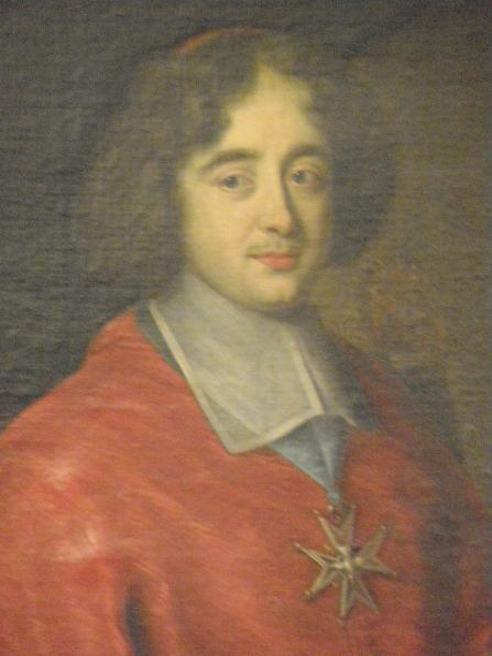 A portrait of Emmanuel Théodose de La Tour d'Auvergne, known as the Cardinal de Bouillon (24 August 1643 – 2 March 1715).